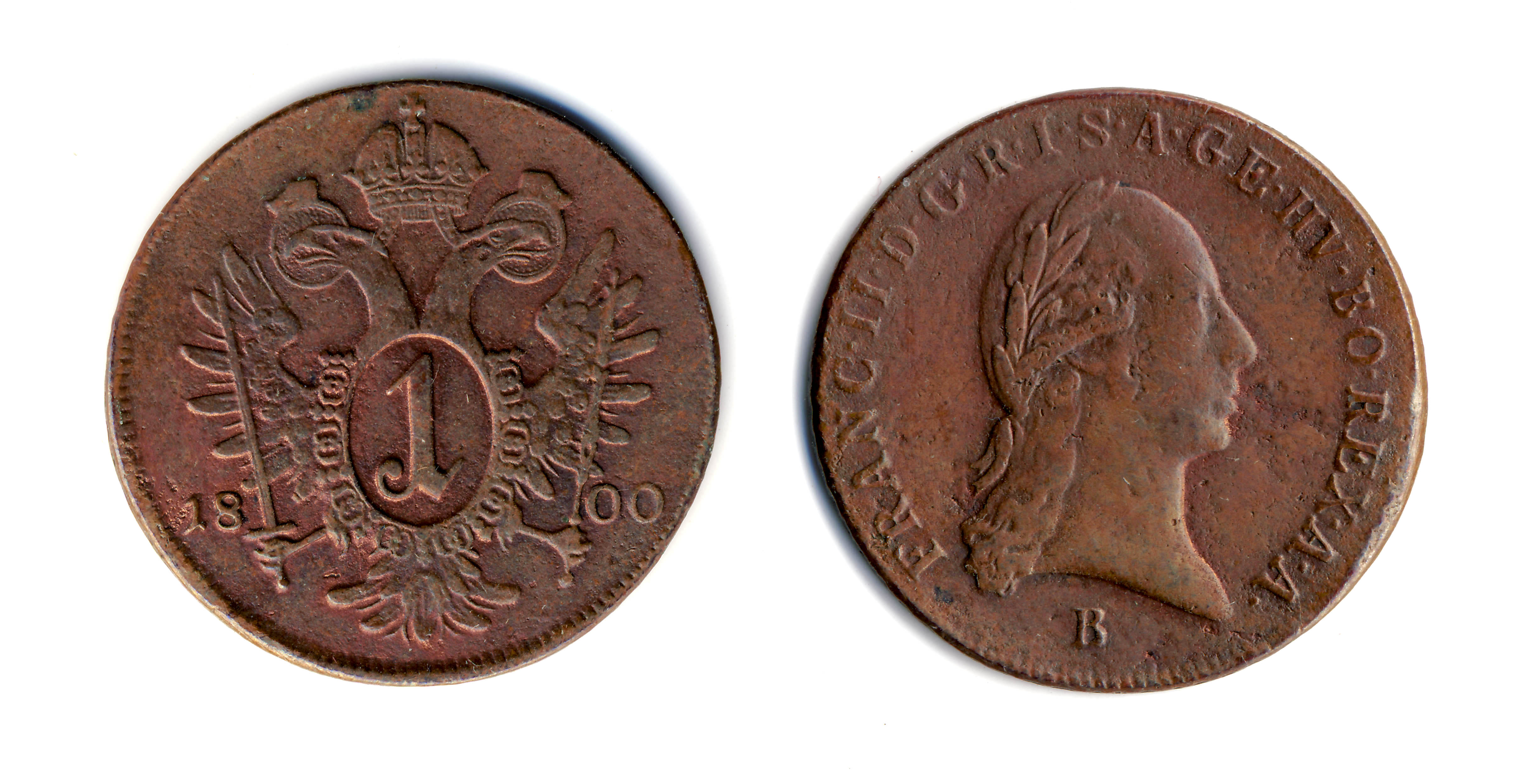 Francis II, Holy Roman Emperor, 1 kreutzer 1800. 25mm, brass - The head under the letter "B" = Buda Royal Coins-factory. This was discontinued.